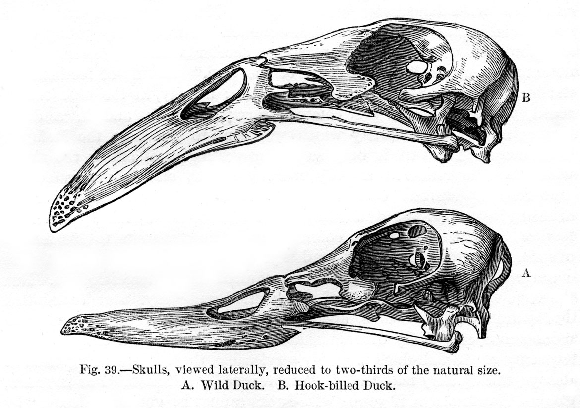 Figure 39 - "Skull, viewed laterally, reduced to two-thirds of the natural size. A. Wild Duck. B. Hook-billed Duck." from Charles Darwin's book Variation of Animals and Plants Under Domestication published in 1868.